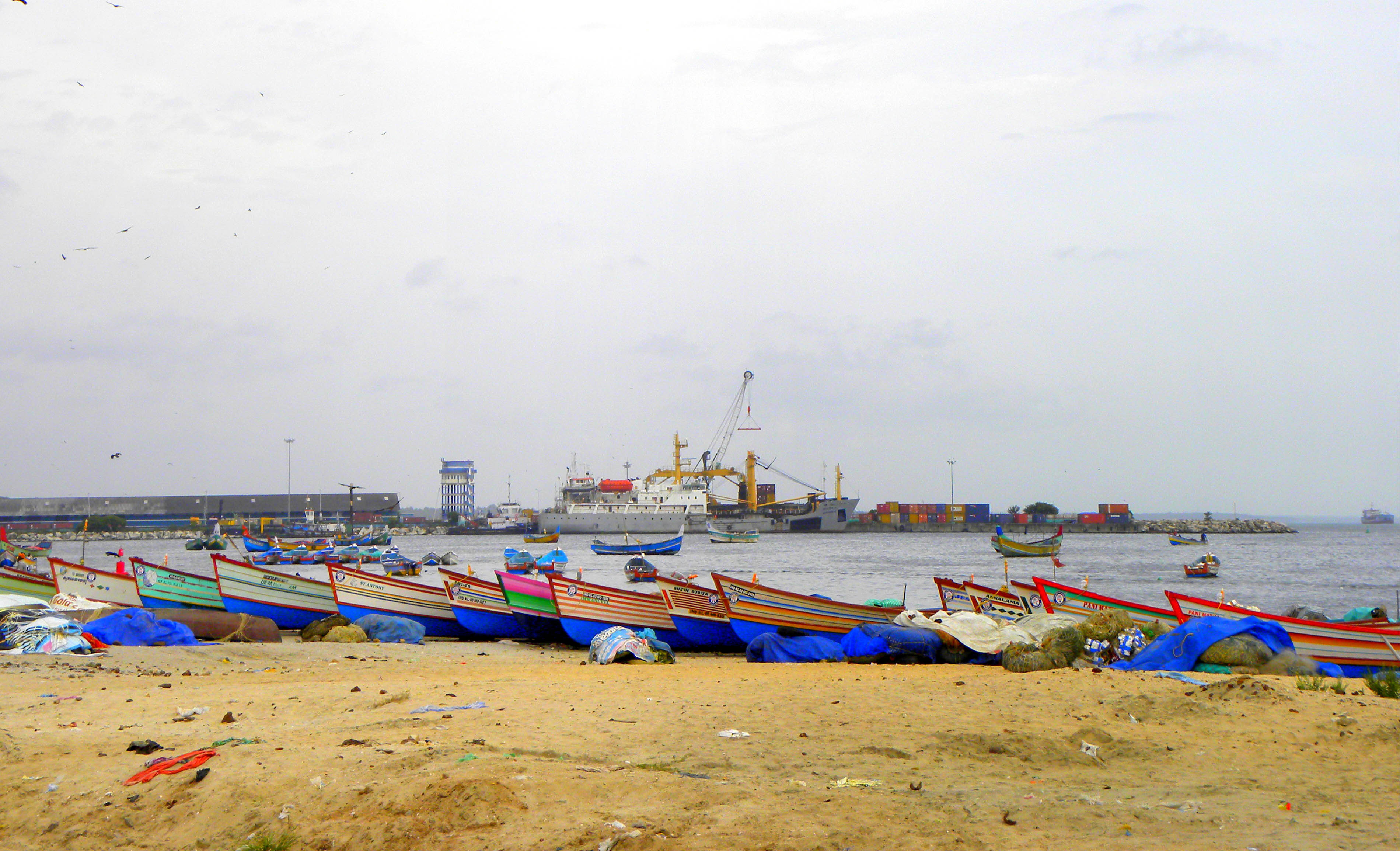 Kollam Port - Once it was the only port in India used for tradings with both Arabians & Chinese